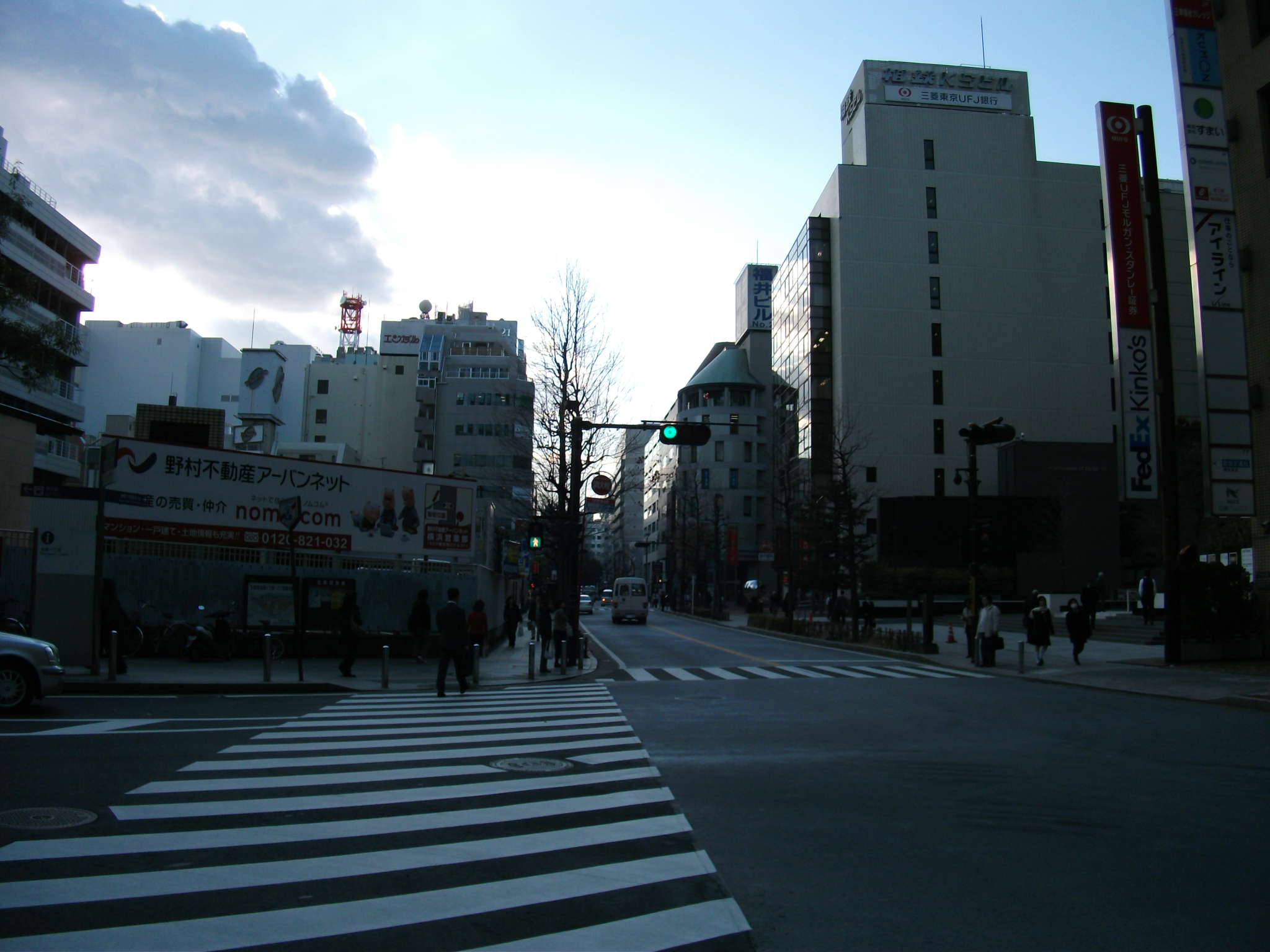 Yokohama Kitasaiwai street (Kanagawa, Japan)